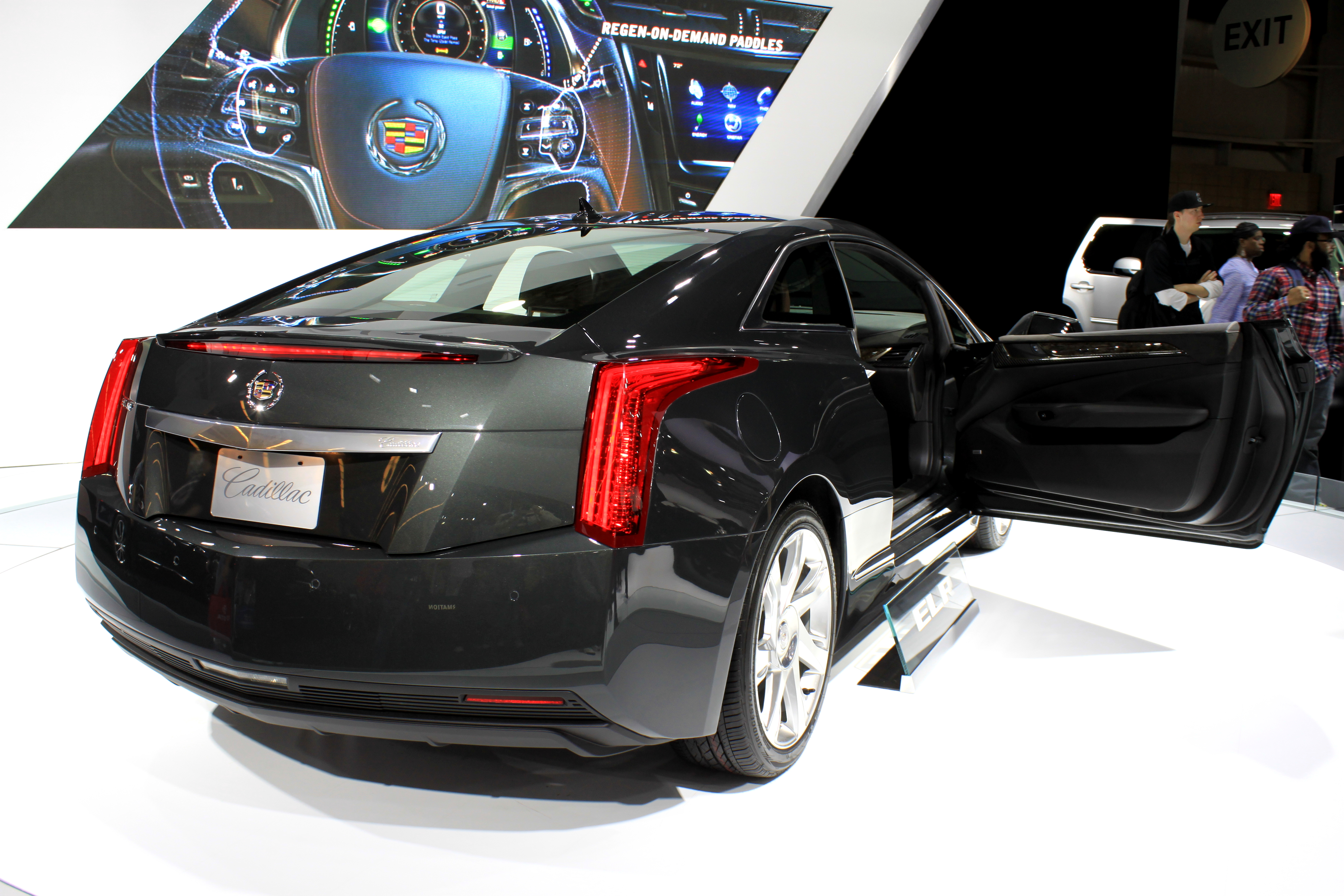 Three-quarters rear view of the 2014 Cadillac ELR coupe at the 2013 New York Auto Show